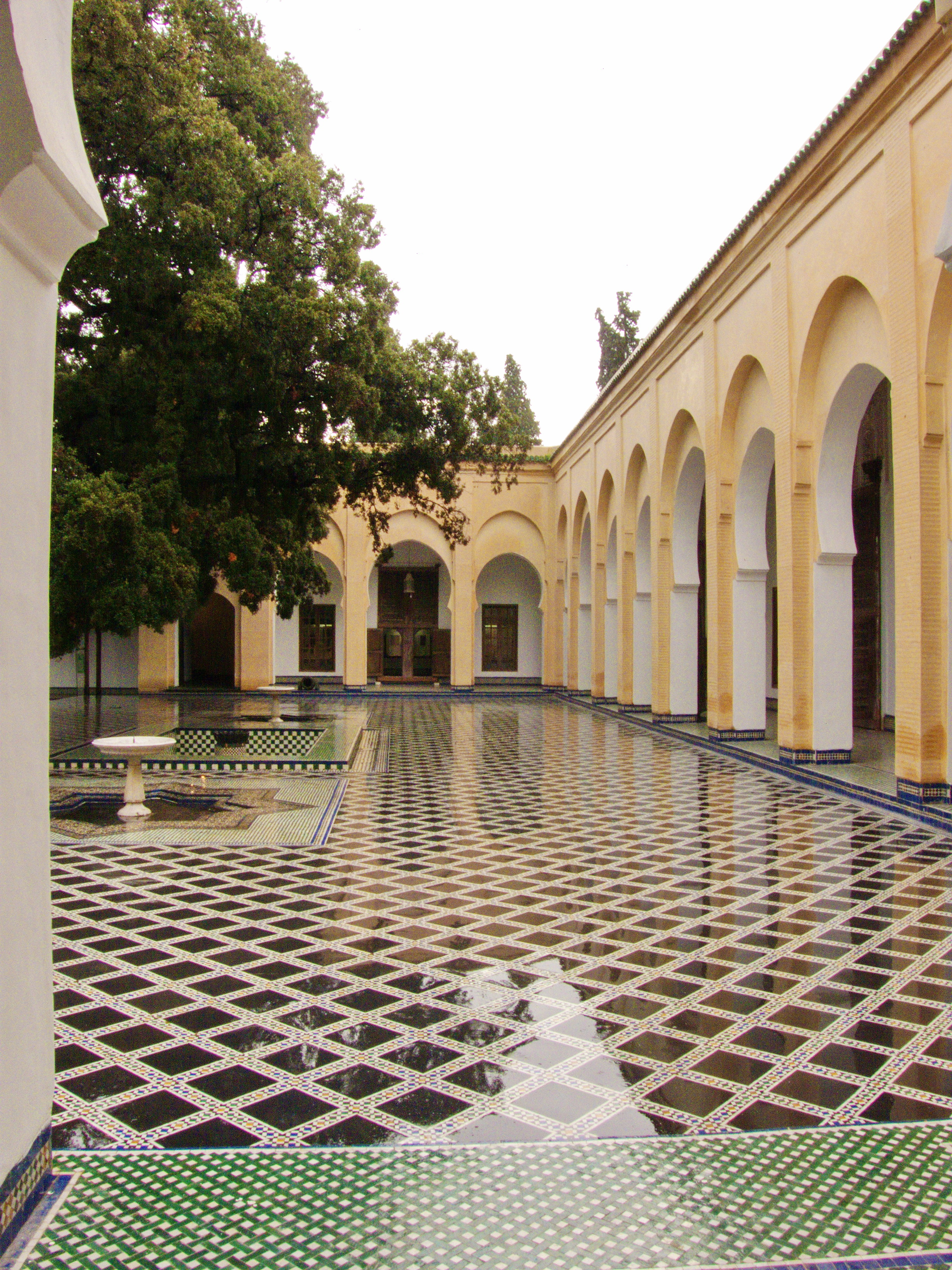 Historical and artistic artifacts include fine woodcarving, zellij and sculpted plaster.